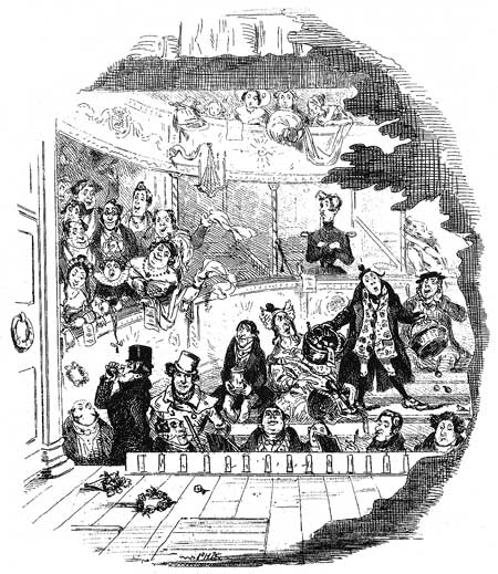 Illustration for Nicholas Nickleby by Hablot Browne